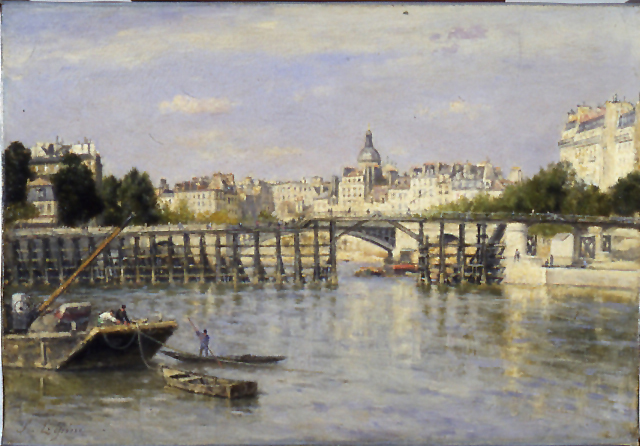 Lépine, a self-taught artist, sought the advice of Camille Corot and Johann Barthold Jongkind, two artists who influenced the early development of Impressionism, and he participated in the first impressionist exhibition in 1874. Although he shared the Impressionists' interests in atmospheric effects, his views of Paris and the Seine River were characterized by their distinctively delicate treatment. His works are devoid of any romantic overtones, and human figures, when they occur, are subordinated to the settings. In this small painting, Paris and the Seine are shown bathed in warm sunlight. Extending across the river in the middle ground is the small foot bridge, the "pont de l'Estacade," which was erected in 1818, rebuilt on several occasions, and demolished in 1938. Slightly beyond is the Pont Sully, constructed in 1874-76, connecting the Ile Saint Louis with the Right Bank. The dome in the center of the picture is that of the church of St. Louis and St. Paul on the rue St. Antoine.The artist apparently painted the view from a quai near the Port-aux-Vins. This painting is thought to be one of several small canvases that was executed in preparation for a larger work, "The Seine at the Estacade," that was exhibited at the Paris Salon in 1885 (#1561).